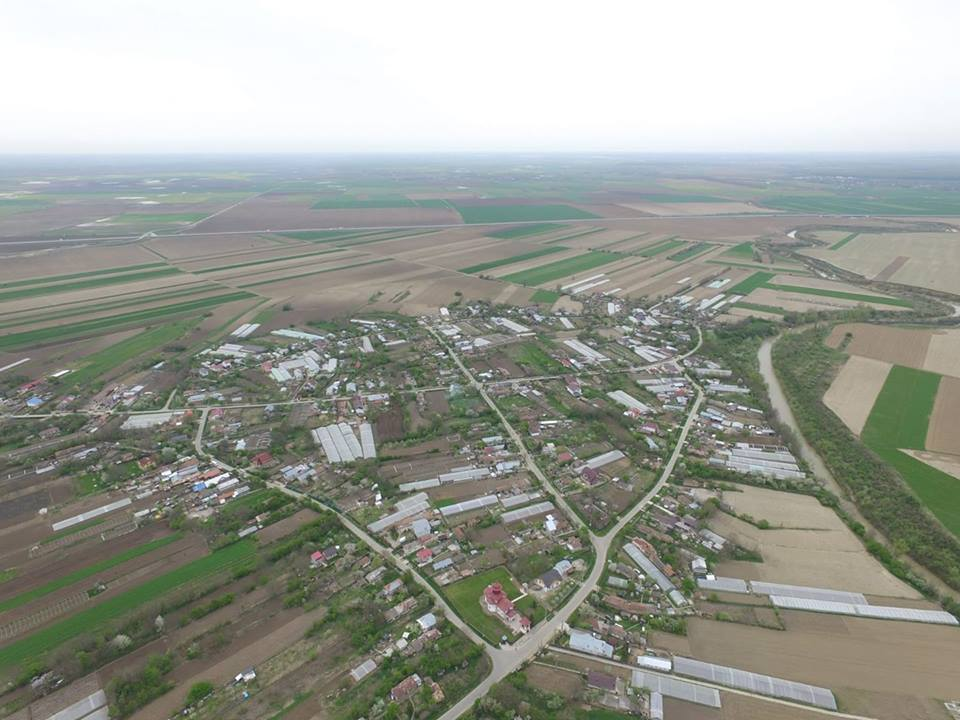 Panoramă